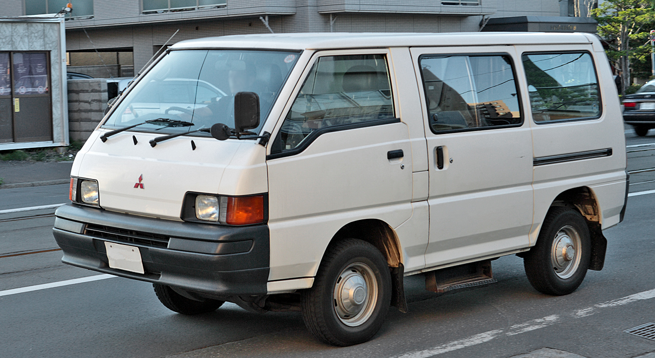 Third generation Mitsubishi Delica Commercial Van 4WD 2.5 Turbo-D